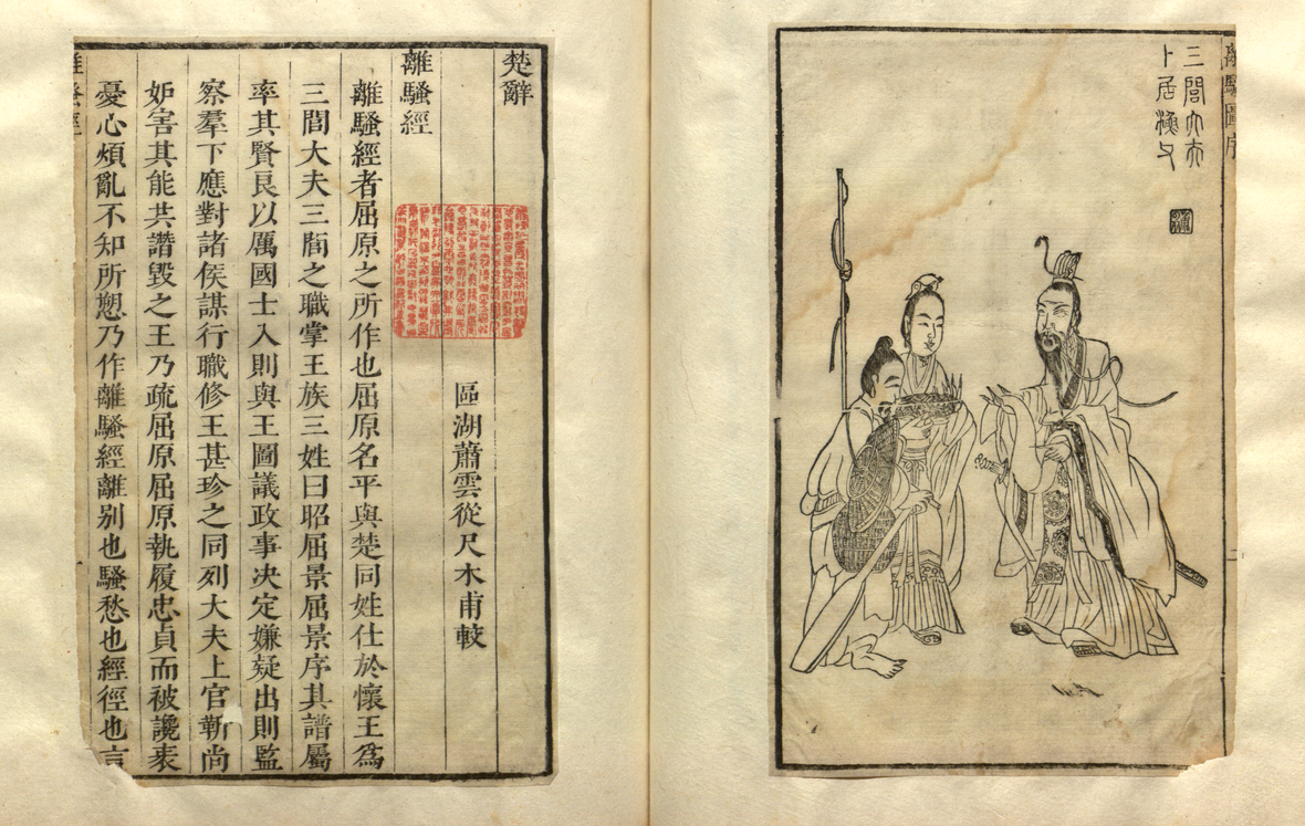 A cropped version of for use in Li Sao-related media.